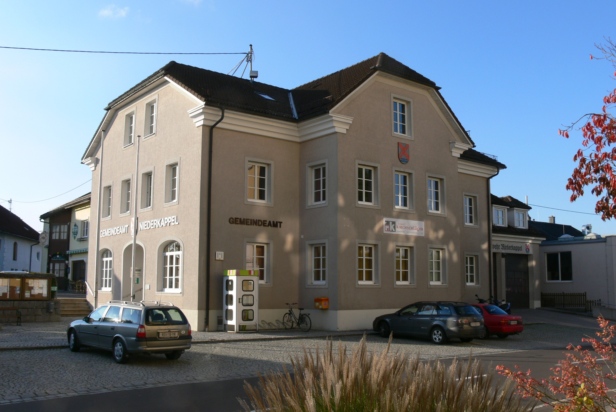 Niederkappel ( Upper Austria ). Municipal office.